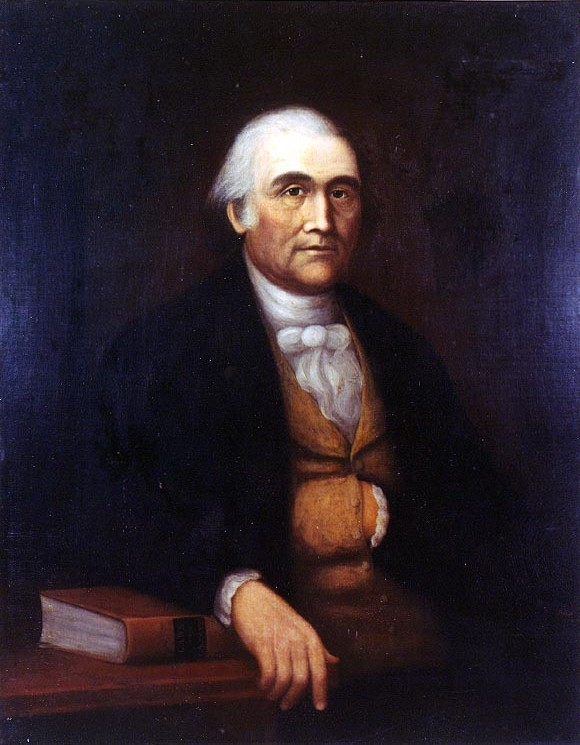 Robert Smith, Secretary of the Navy, 27 July 1801 - 7 March 1809